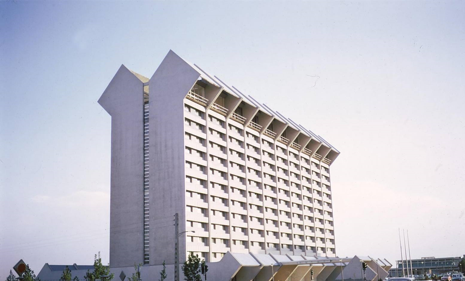 Tehran InterContinental Hotel